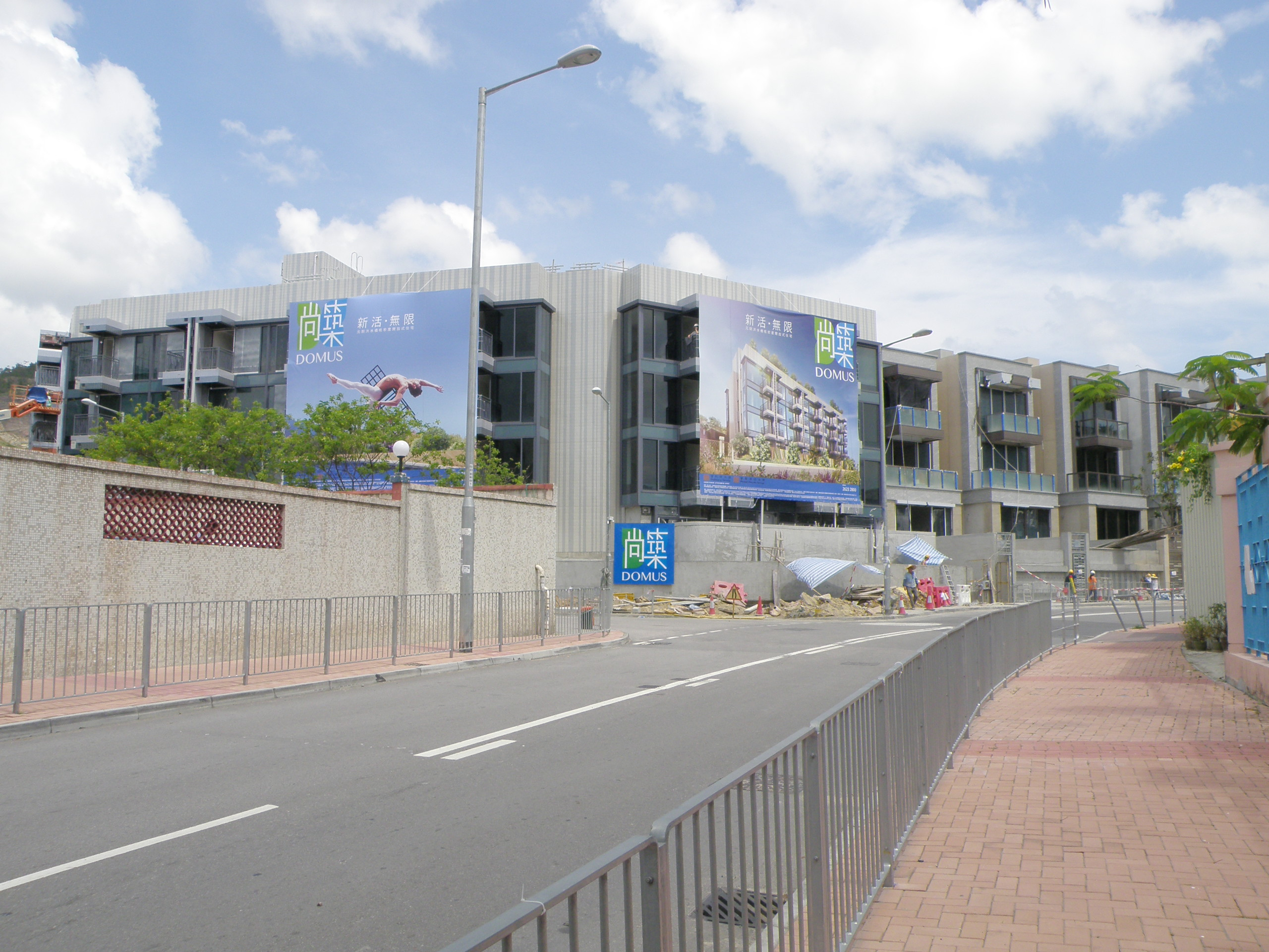 Domus in Hung Shui Kiu, Hong Kong.